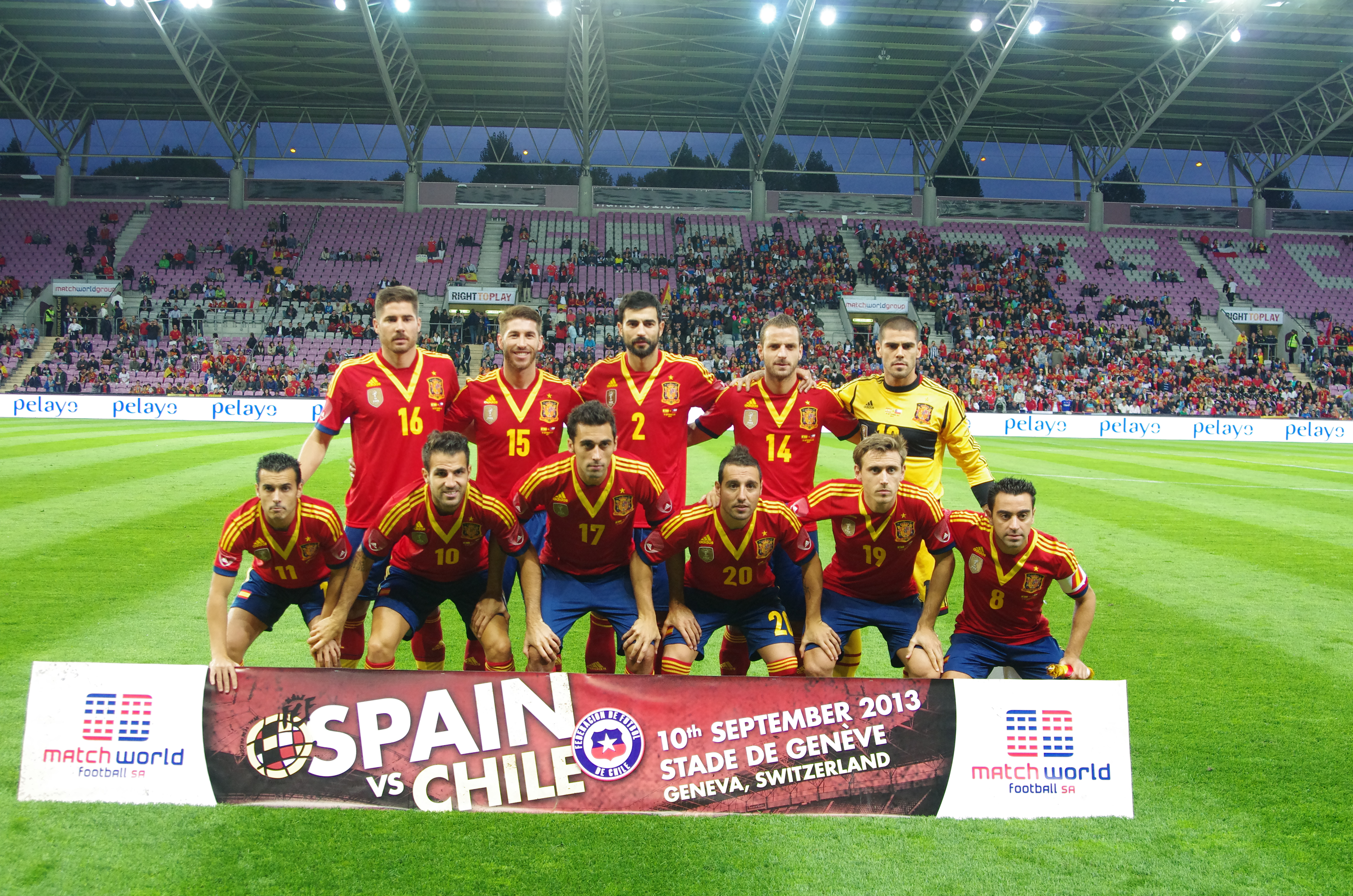 Espagne-Chili - 20130910